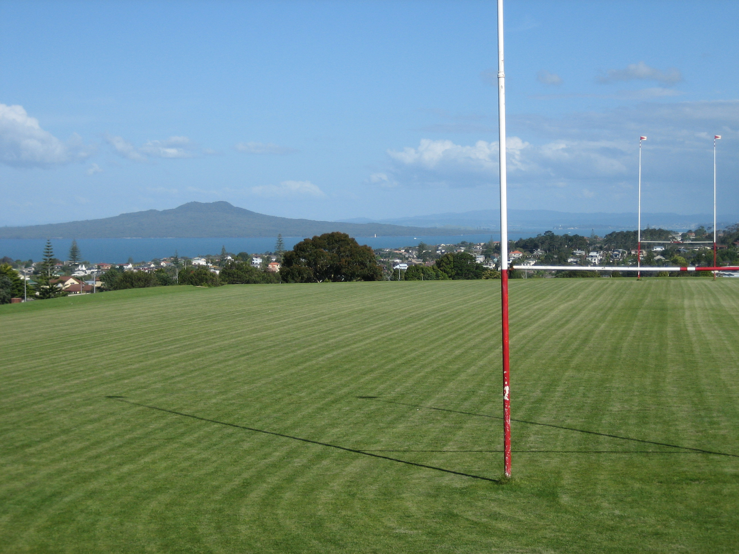 View to Rangitoto Island from the top Rugby field at Rangitoto College